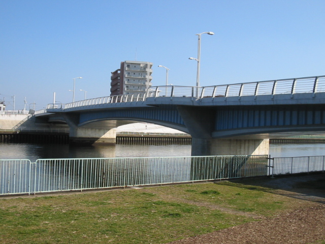 Suzukaze-Bashi, Edogawa-ku, Tokyo, Japan